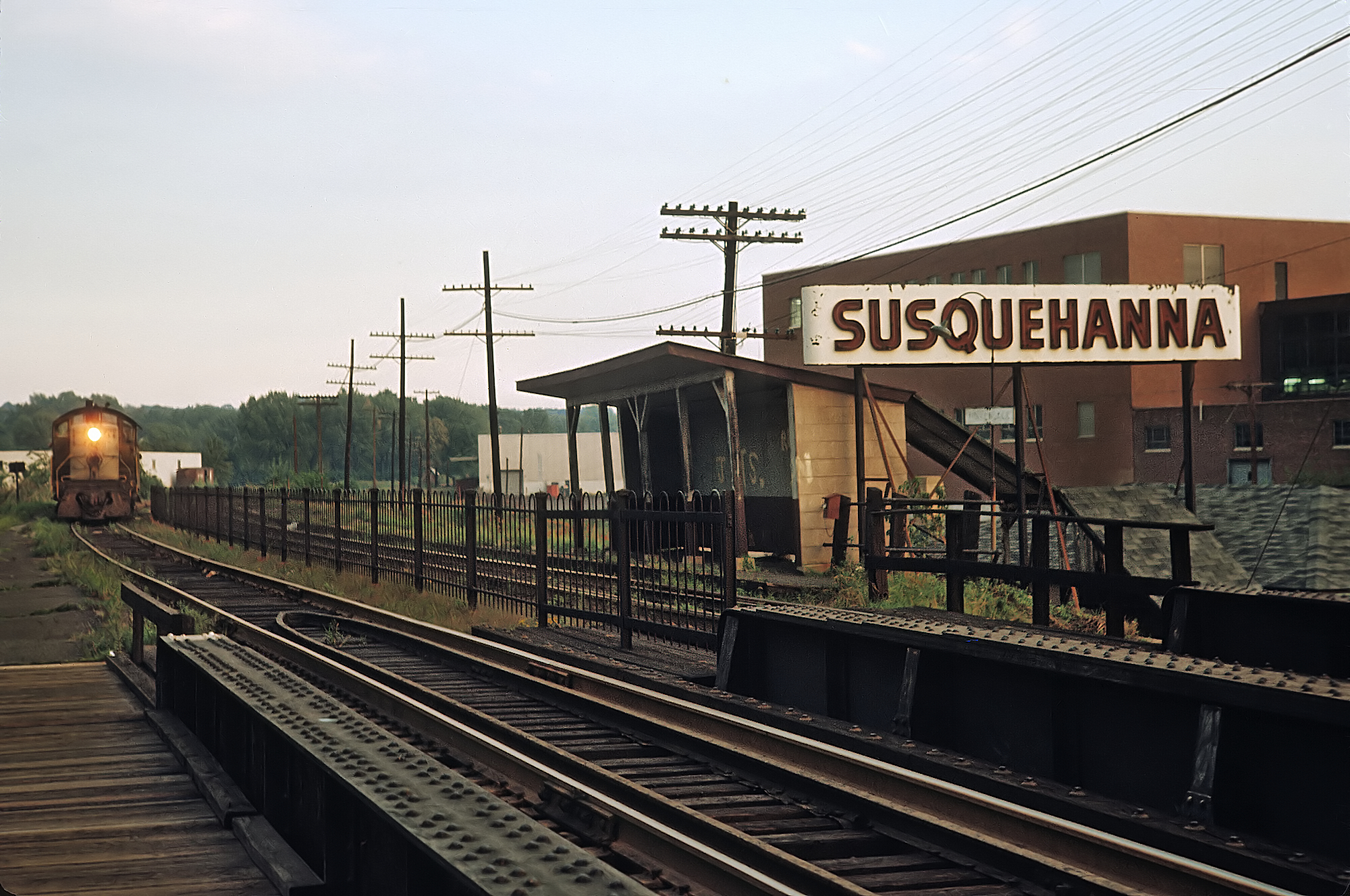 A Roger Puta Photograph